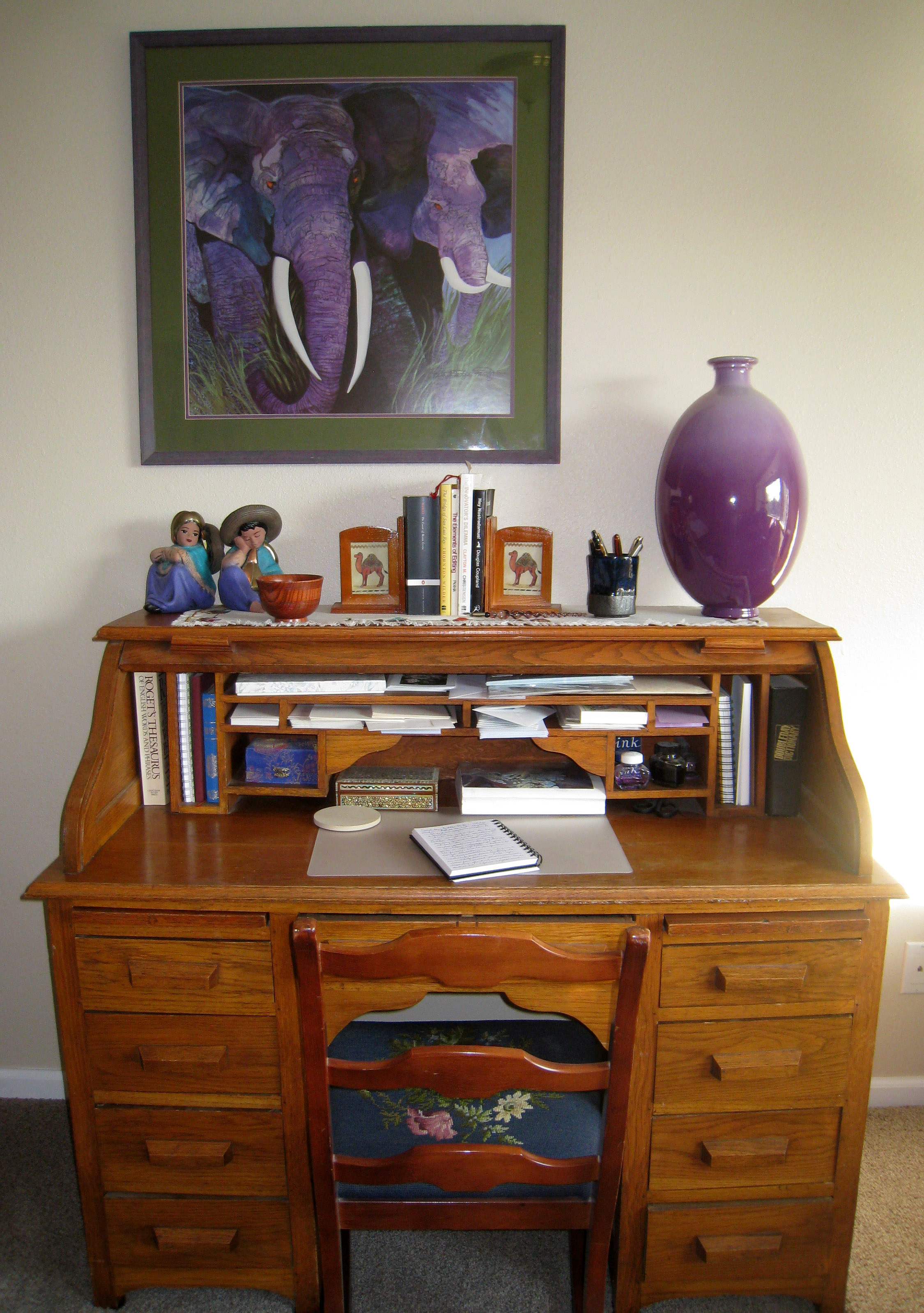 Photograph of a rolltop writing desk and surroundings. The desk is antique but of unknown age.